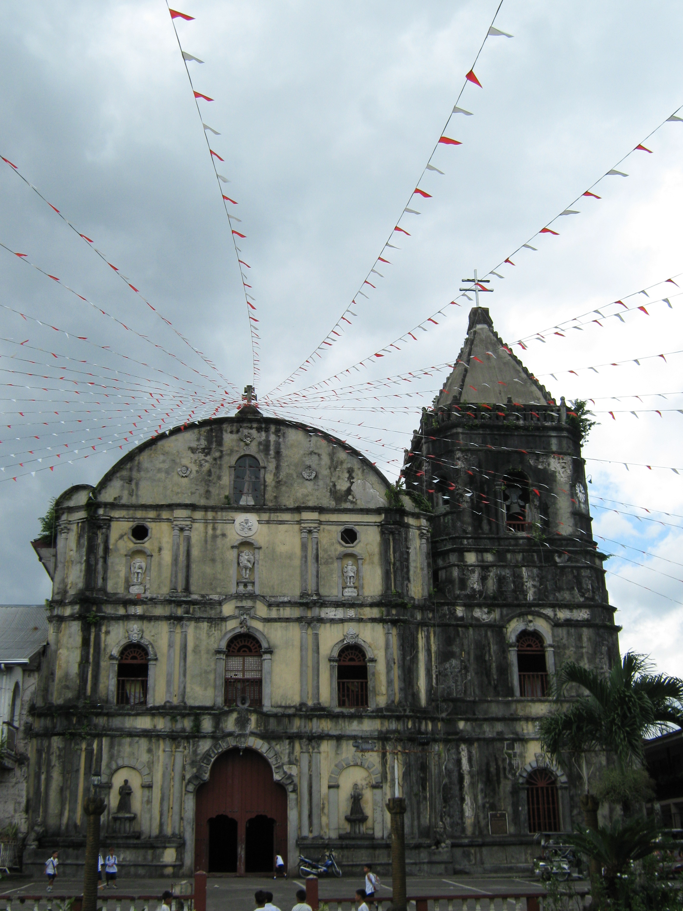 Minor Basilica of St. Michael Archagel Facade